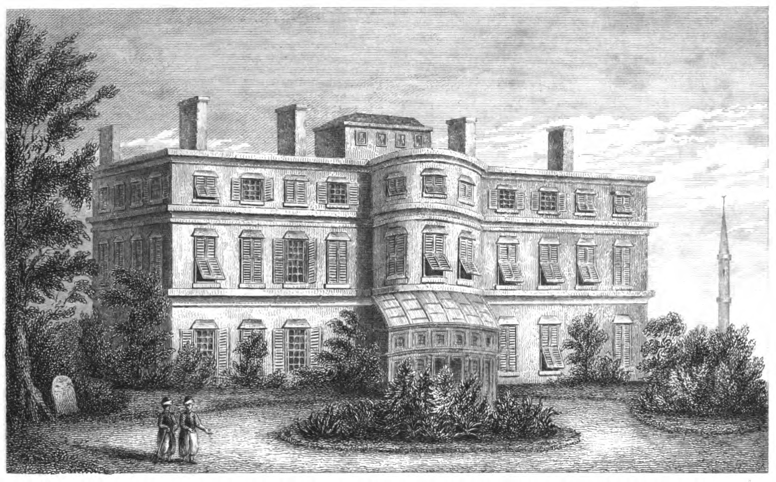 English Embassy building in Constantinople. Built for Lord Elgin (1801-1802)